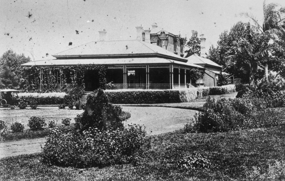 Ascot House in Toowoomba, designed by architect, James Marks, ca. 1876.